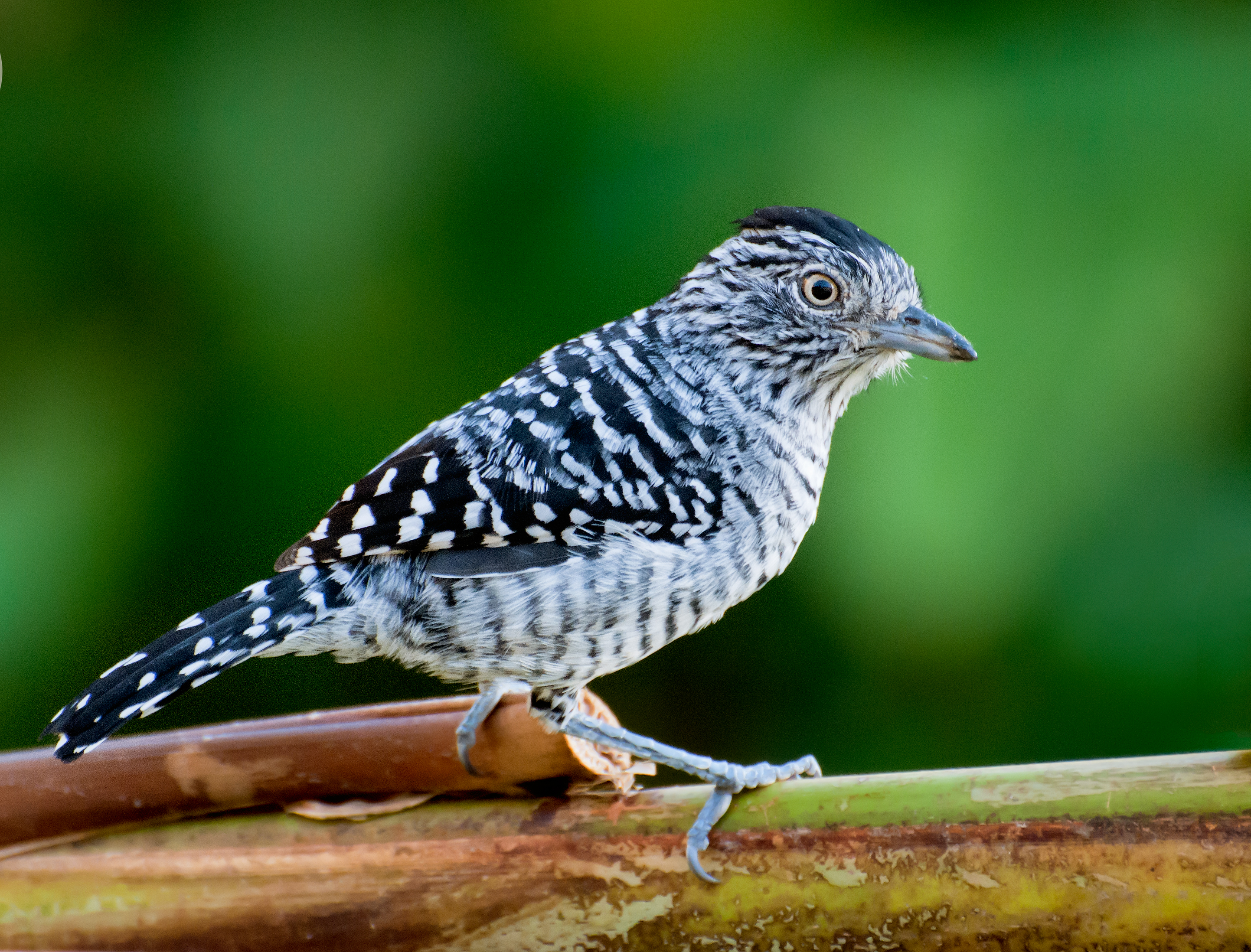 A male Barred Antshrike in Piraju, São Paulo, Brazil.